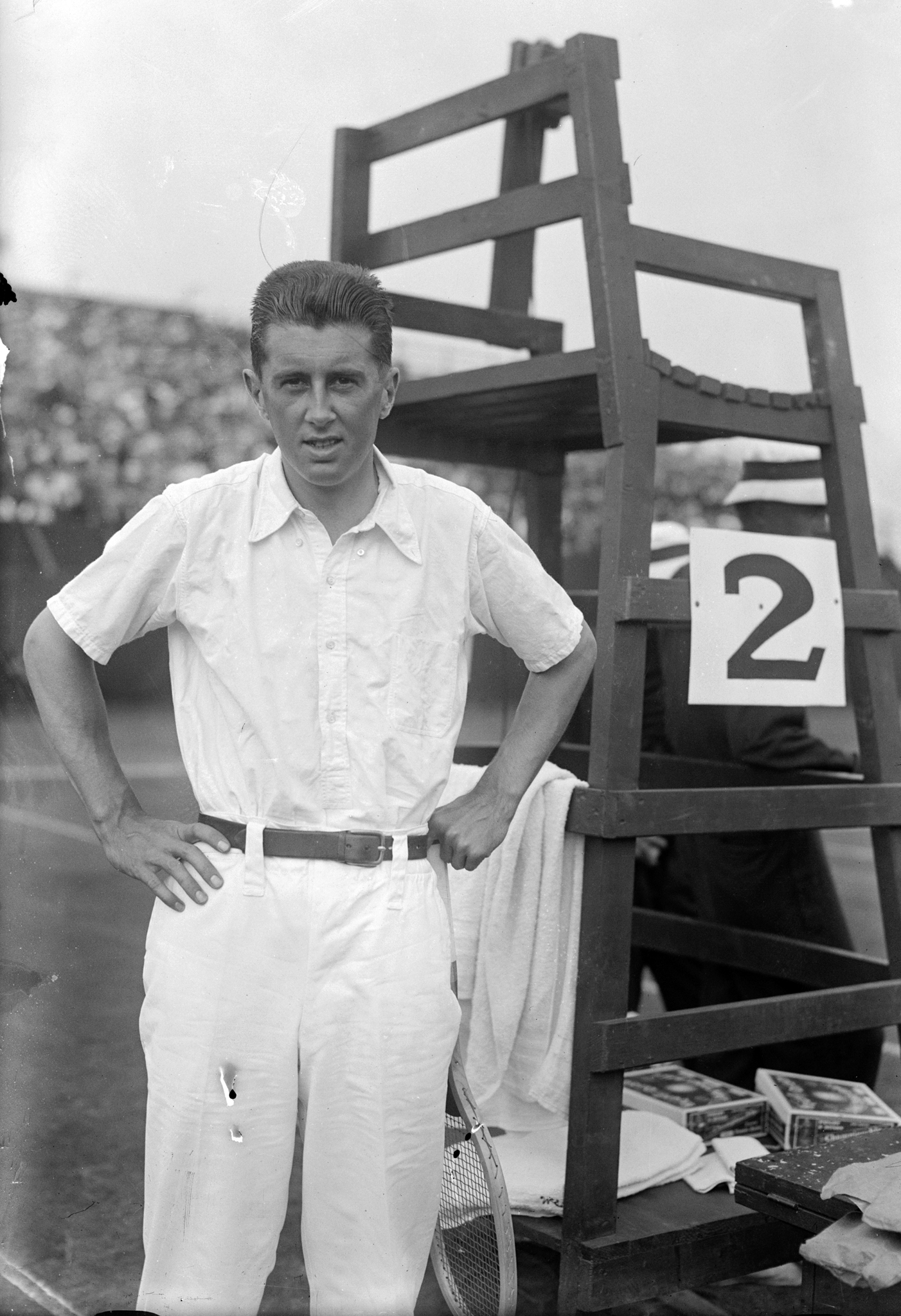 R. Norris Williams in 1916 at his match against William M. Johnston at the 1916 U.S. National Championship held August 28–Sept. 5, 1916 in Forest Hills, New York.